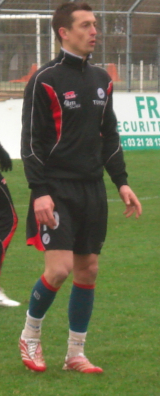 Laurent Dufresne during a training